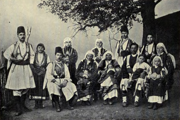 Macedonian peasants in the early 20th century